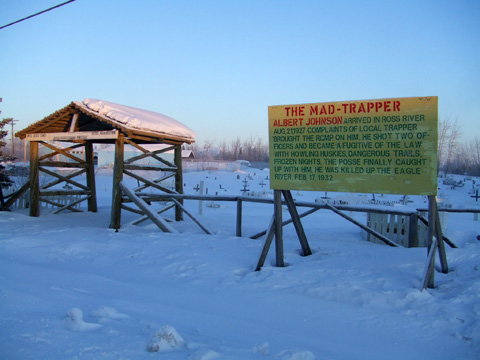 Aklavik, Northwest Territories, Canada.